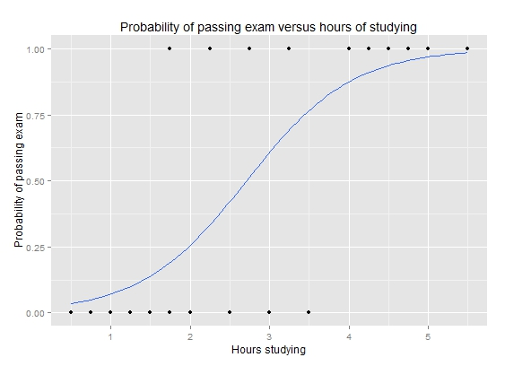 Graph of a logistic regression curve showing probability of passing an exam versus hours studying